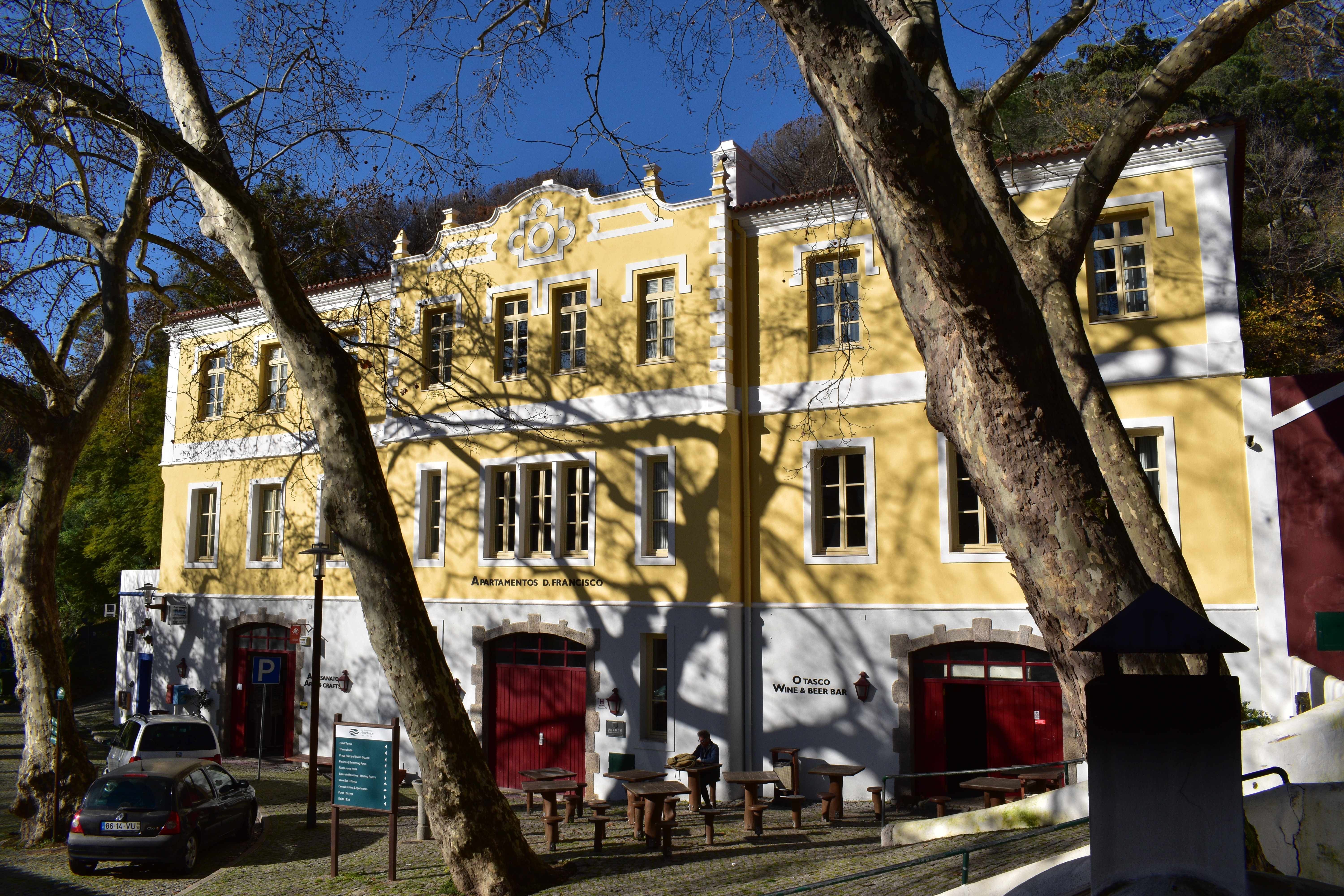 Building of Hospedaria Nova (New Hostel), part of the Monchique Spa, in Southern Portugal.